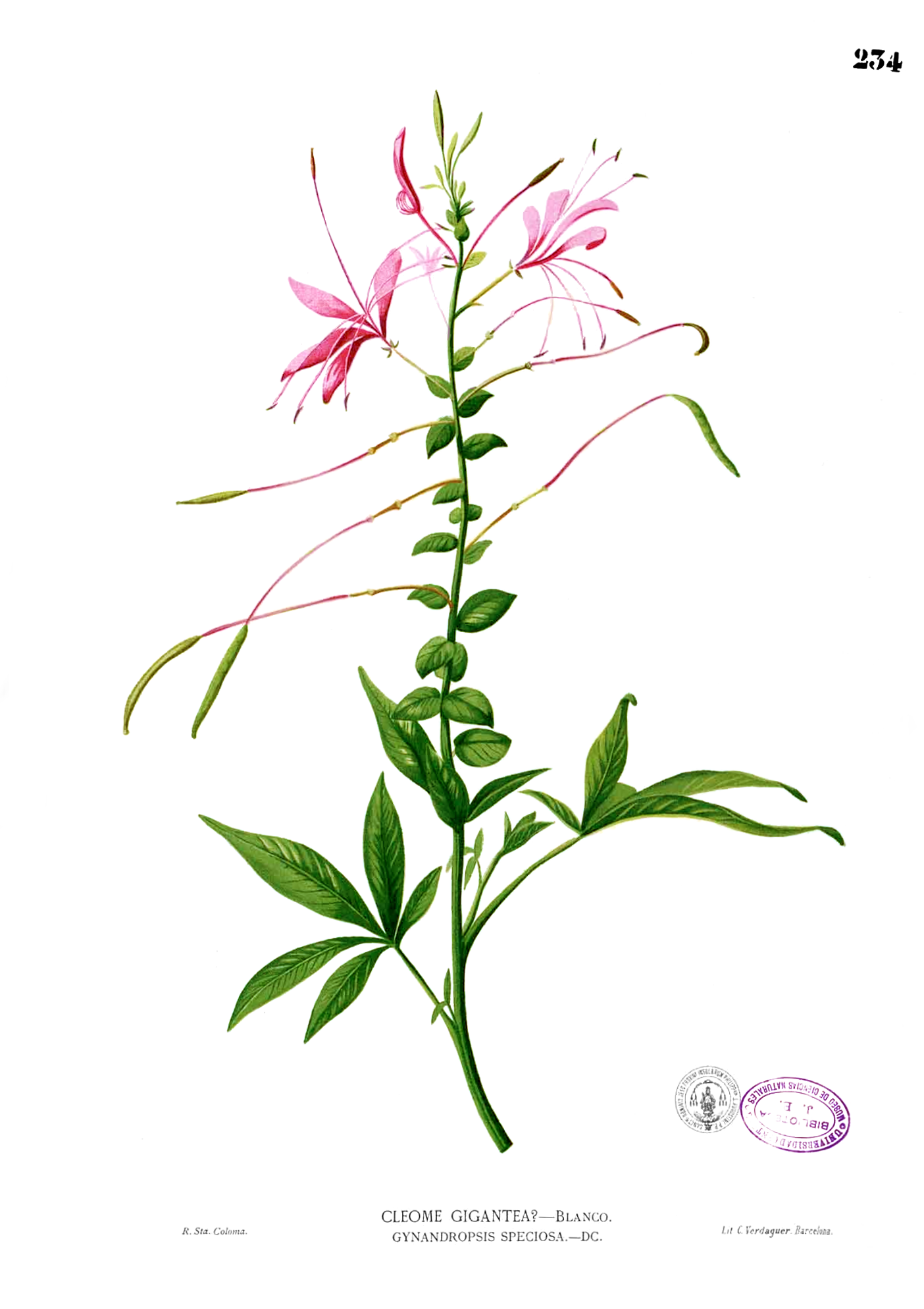 Plate from book